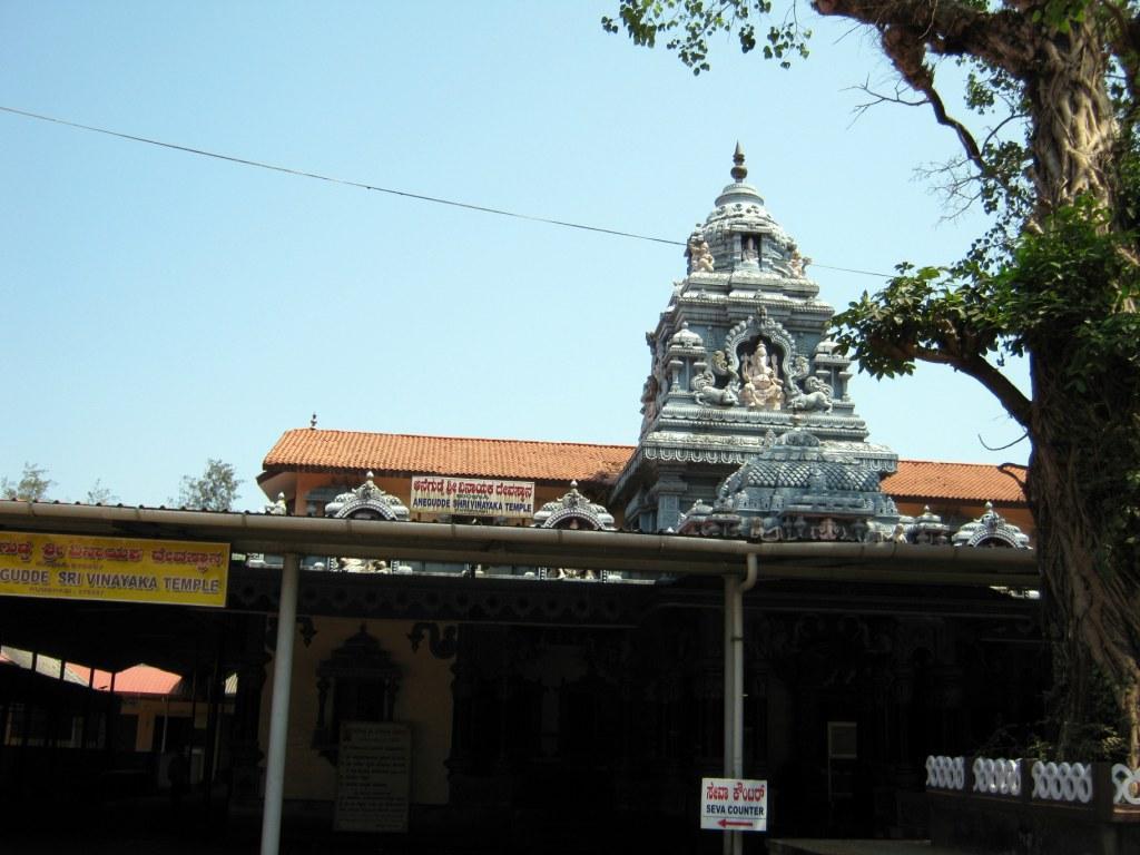 Anegudde Temple, Kumbashi